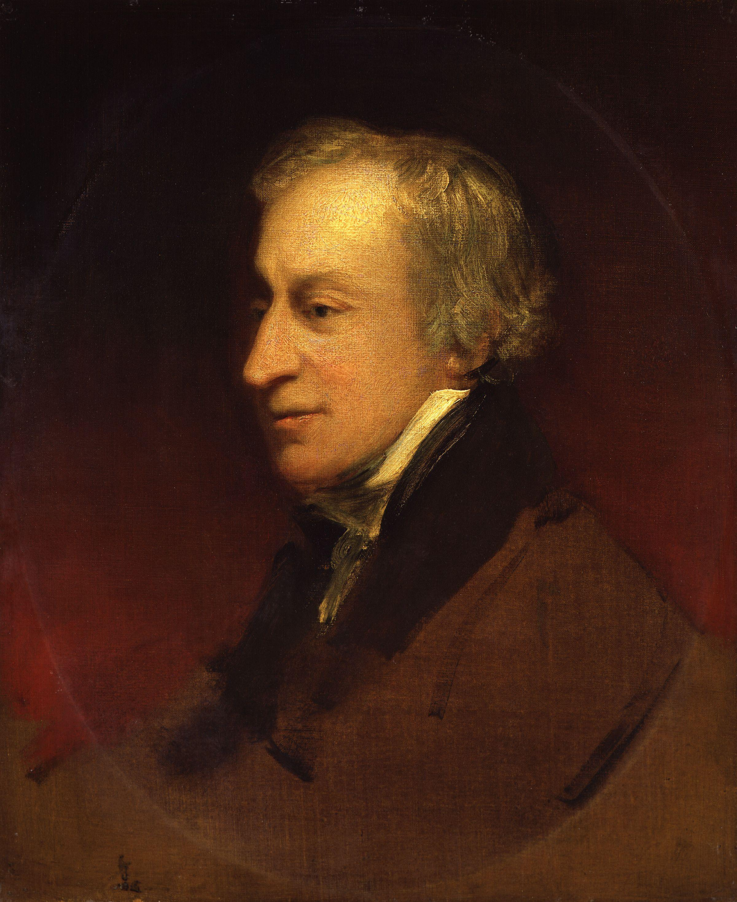 Samuel Wesley, by John Jackson (died 1831). All images in this batch have been confirmed as author died before 1939 according to the official death date listed by the NPG.